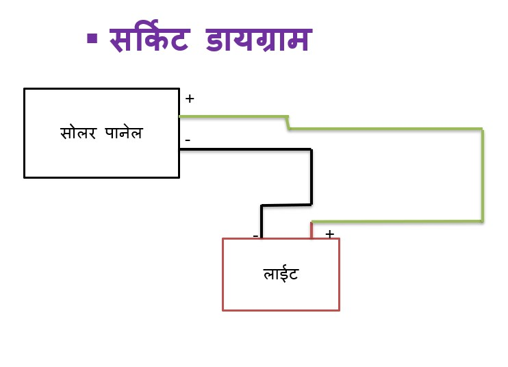 Circuit diagram of solar lamp